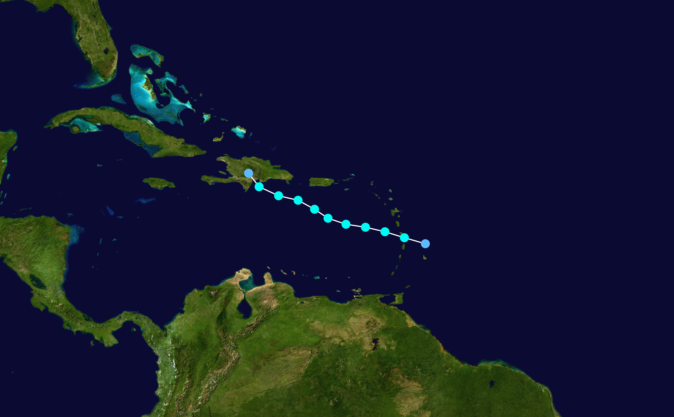 Track map of Tropical Storm Cindy of the 1993 Atlantic hurricane season. The points show the location of the storm at 6-hour intervals. The colour represents the storm's maximum sustained wind speeds as classified in the Saffir–Simpson scale (see below), and the shape of the data points represent the nature of the storm, according to the legend below. Saffir–Simpson scale Tropical depression≤38 mph≤62 km/h Category 3111–129 mph178–208 km/h Tropical storm39–73 mph63–118 km/h Category 4130–156 mph209–251 km/h Category 174–95 mph119–153 km/h Category 5≥157 mph≥252 km/h Category 296–110 mph154–177 km/h Unknown Storm type Tropical cyclone Subtropical cyclone Extratropical cyclone / Remnant low / Tropical disturbance / Monsoon depression